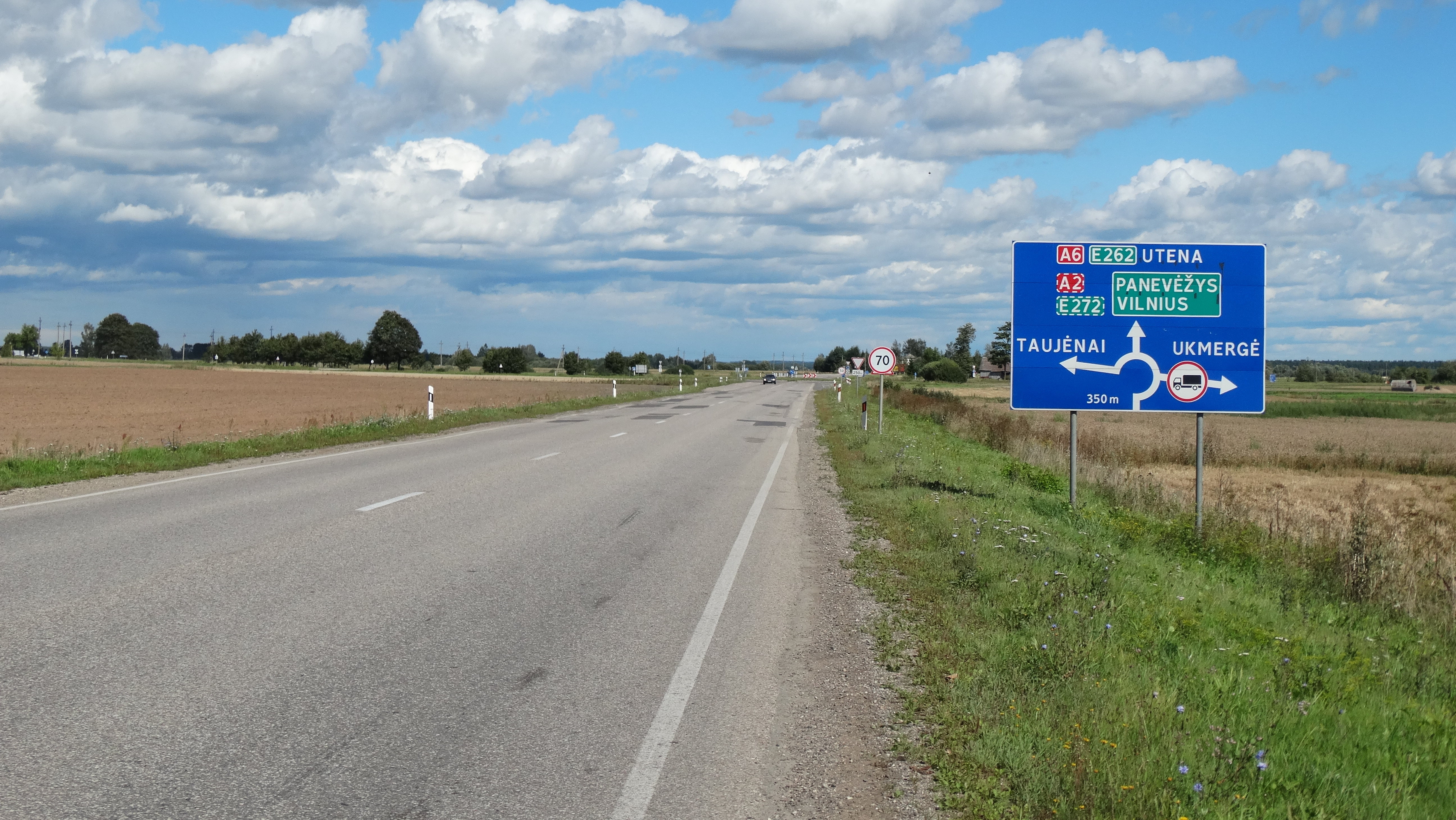 Bypass road A20, by Ukmergė, Lithuania